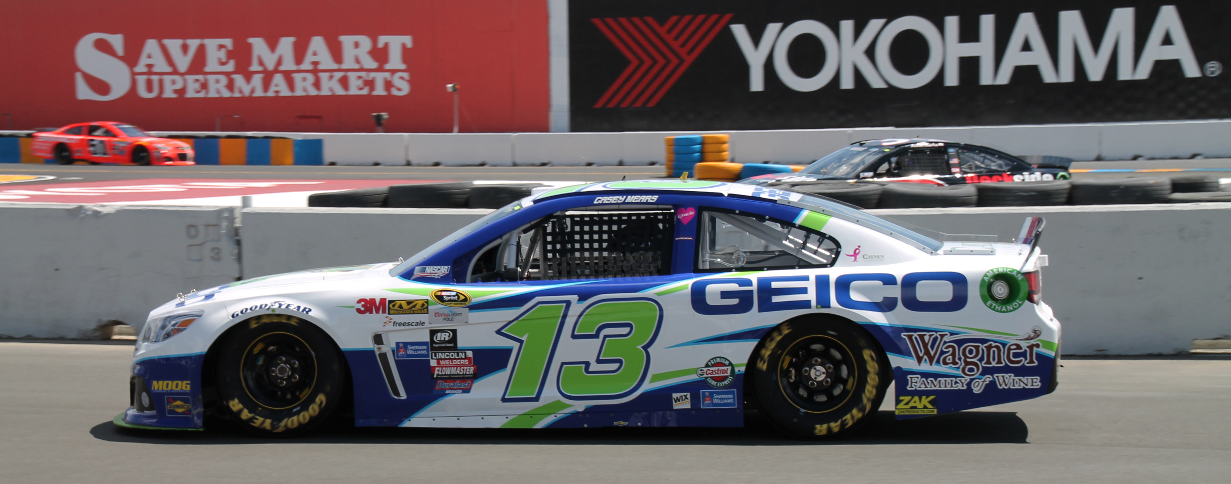 Casey Mears during 2015 Toyota/Save Mart 350 qualifications. Sonoma, California